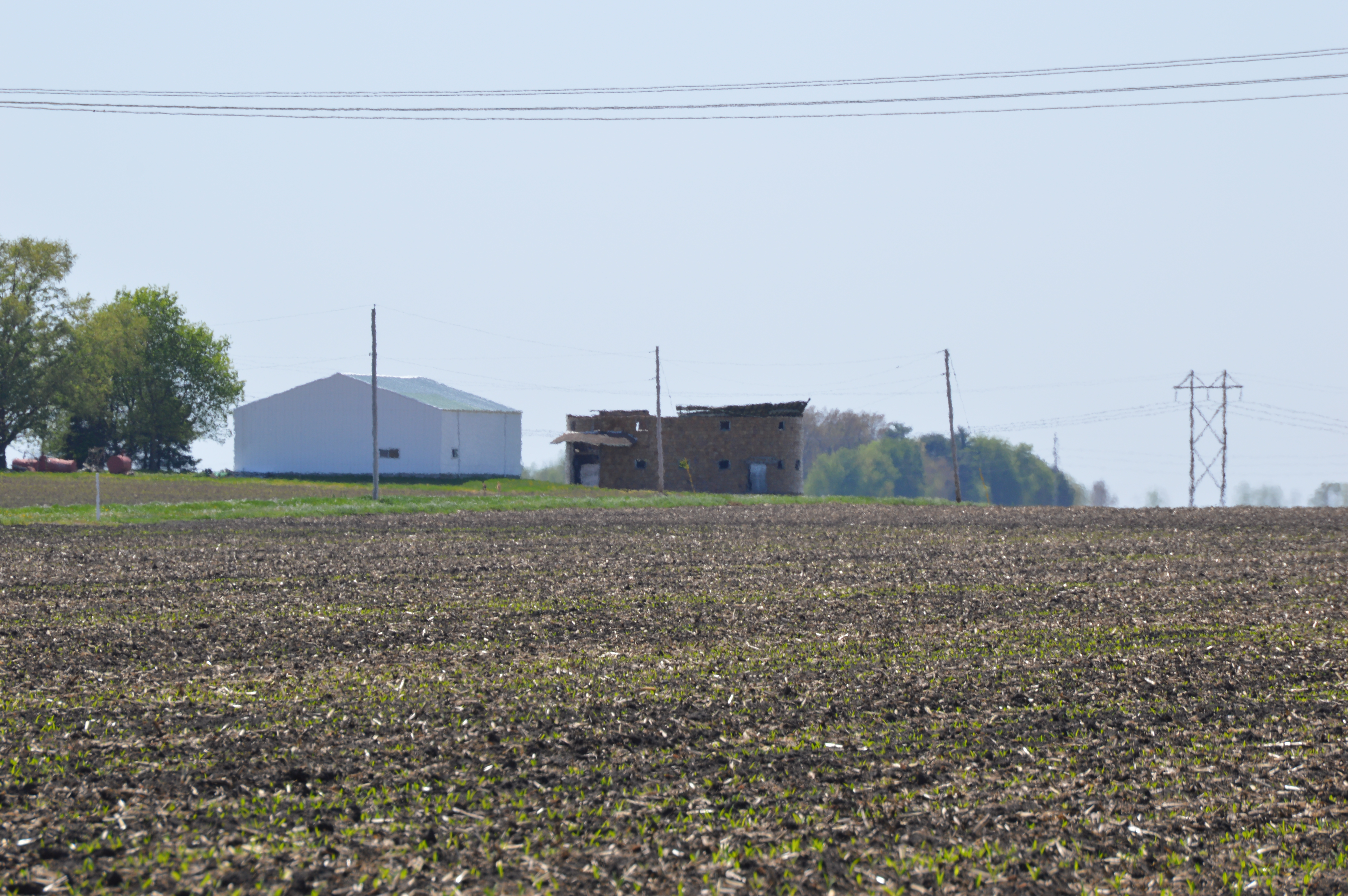 View from the east of the remains of the Robert Buckles Barn, located off 1750 Avenue southeast of Mount Pulaski in Mount Pulaski Township, Logan County, Illinois, United States. Built in 1917, it is listed on the National Register of Historic Places.